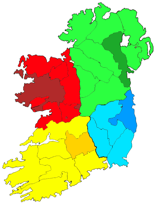 Catholic Diocese of Ireland. This is a current map of the ecclesiastical diocese of the Catholic Church in Ireland.